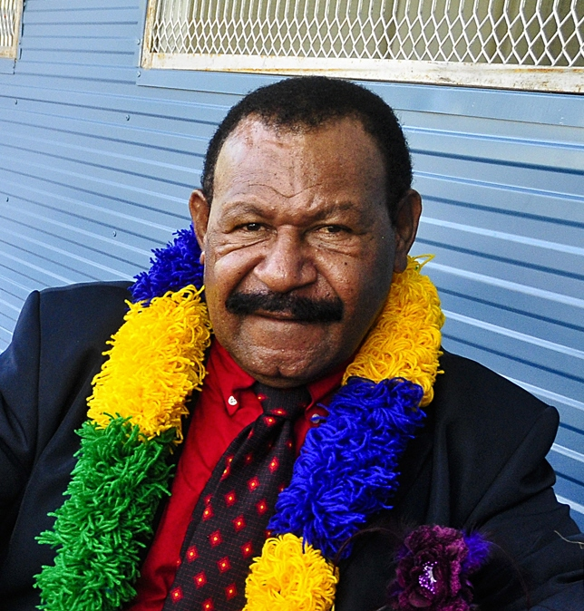 Governor Luther Wenge of Morobe Province at the ribbon cutting of the Bubia Primary school in Lau, Papua New Guinea.